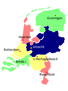 Map of Roman Catholic Dioceses in the Netherlands